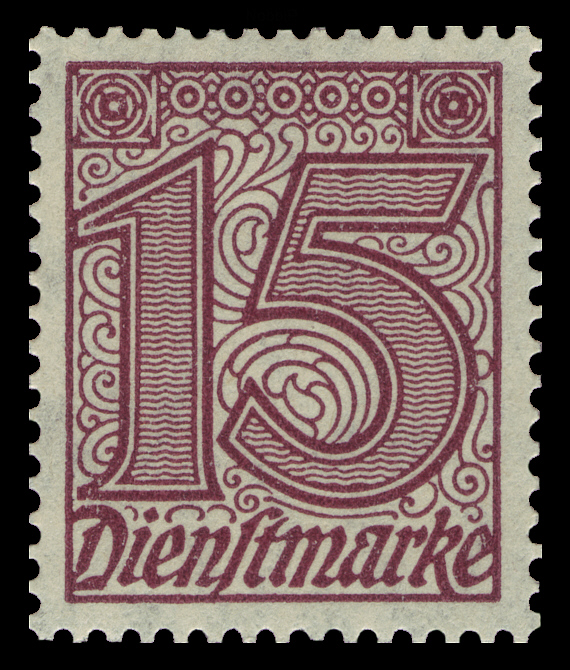 common official stamp series 1920 Ausgabepreis: 15 Pfennig First Day of Issue / Erstausgabetag: 1. April 1920 Michel-Katalog-Nr: 25 (Dienstmarke Deutsches Reich)